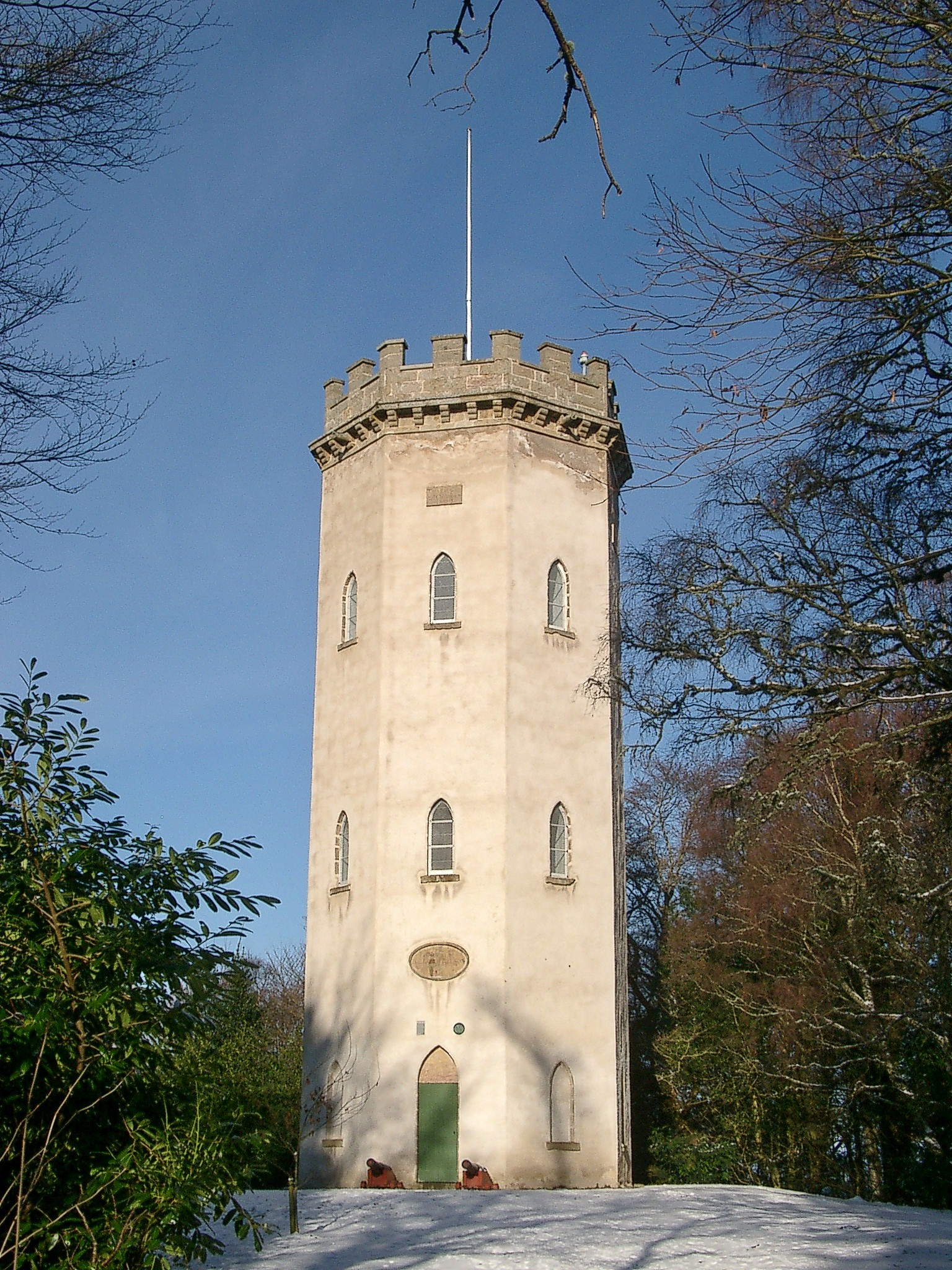 Nelson's Tower, Cluny Hill, Forres Built in 1806 to commemorate Nelson's victories at the Nile and Trafalgar. Now looked after by Historic Scotland. Keywords: tower monument Nelson Forres Moray Scotland